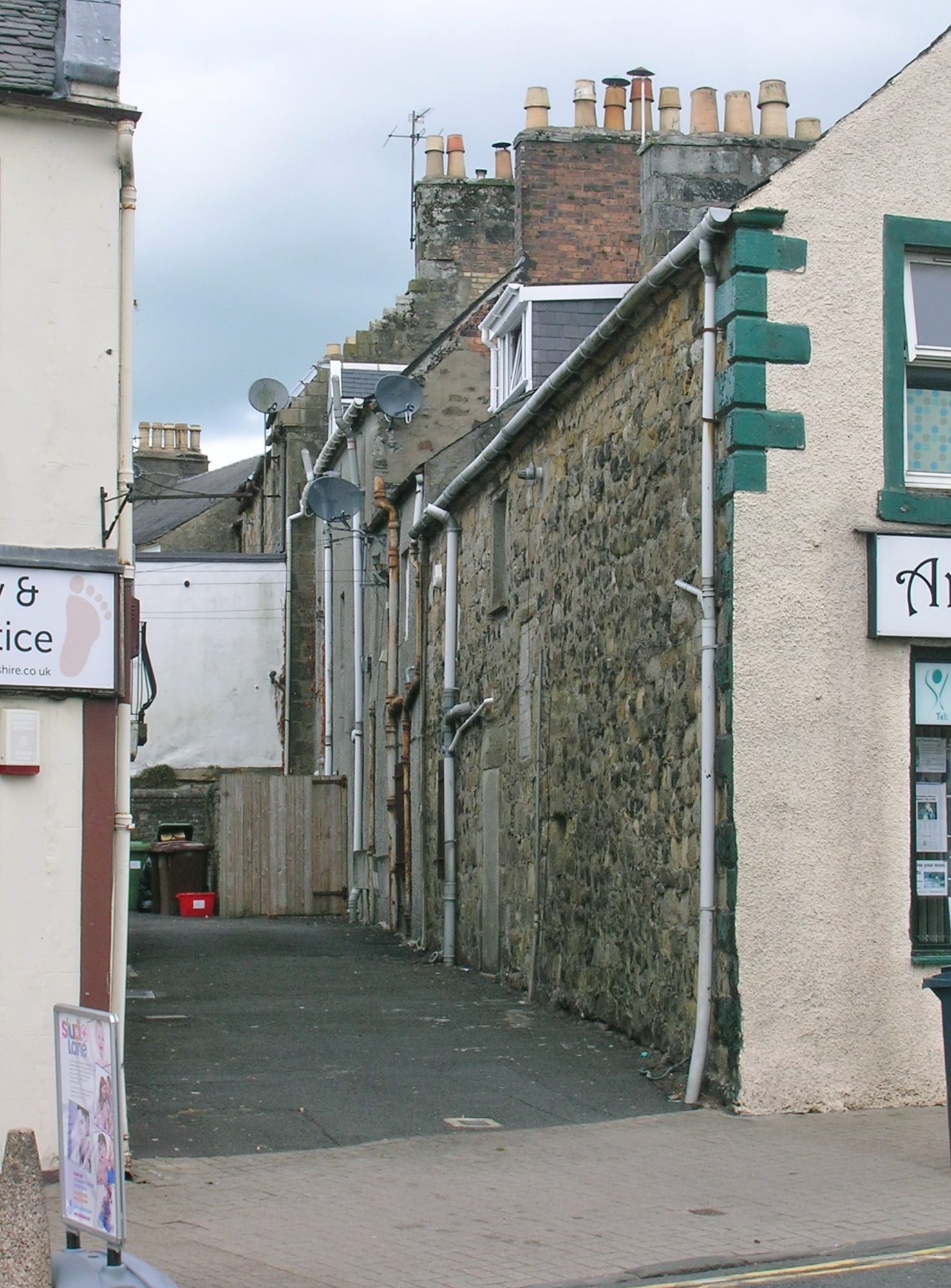 Buck's Head Close, Stewarton, East Ayrshire, Scotland. Once home to Robert Burnes, uncle of the poet Robert Burns.